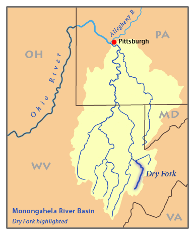 This is a map of the Monongahela River basin, with the Dry Fork in West Virginia highlighted. Credits I, Pfly, made it, based on USGS data.